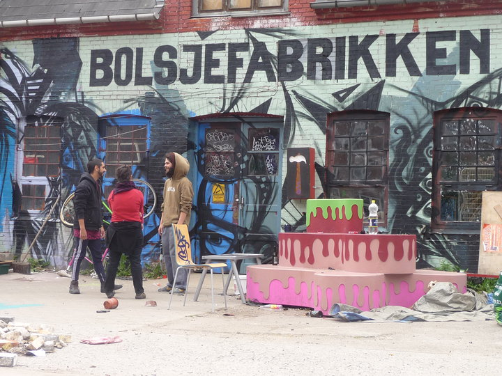 Bolsjefabrikken Lærkevej 11 København